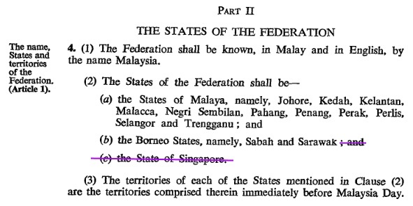 United Kingdom of Great Britain and Northern Ireland and Federation of Malaya, North Borneo, Sarawak and Singapore: Agreement relating to Malaysia (with annexes, including the Constitutions of the States of Sabah, Sarawak and Singapore, the Malaysia Immigration Bill and the Agreement between the Governments of the Federation of Malaya and Singapore on common market and financial arrangements), signed at London on 9 July 1963; Agreement amending the above-mentioned Agreement, signed at Singapore on 28 August 1963.